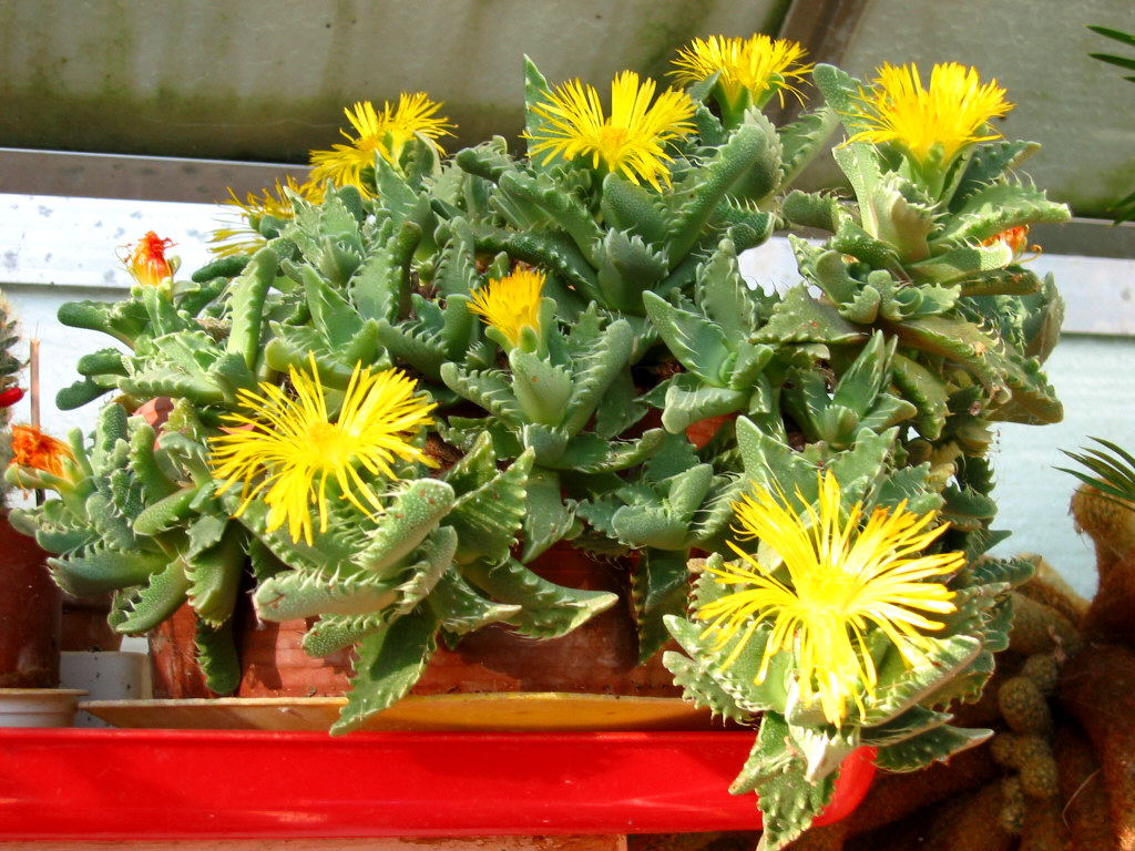 Faucaria tigrina with flowers. Autor/author: User:Anna